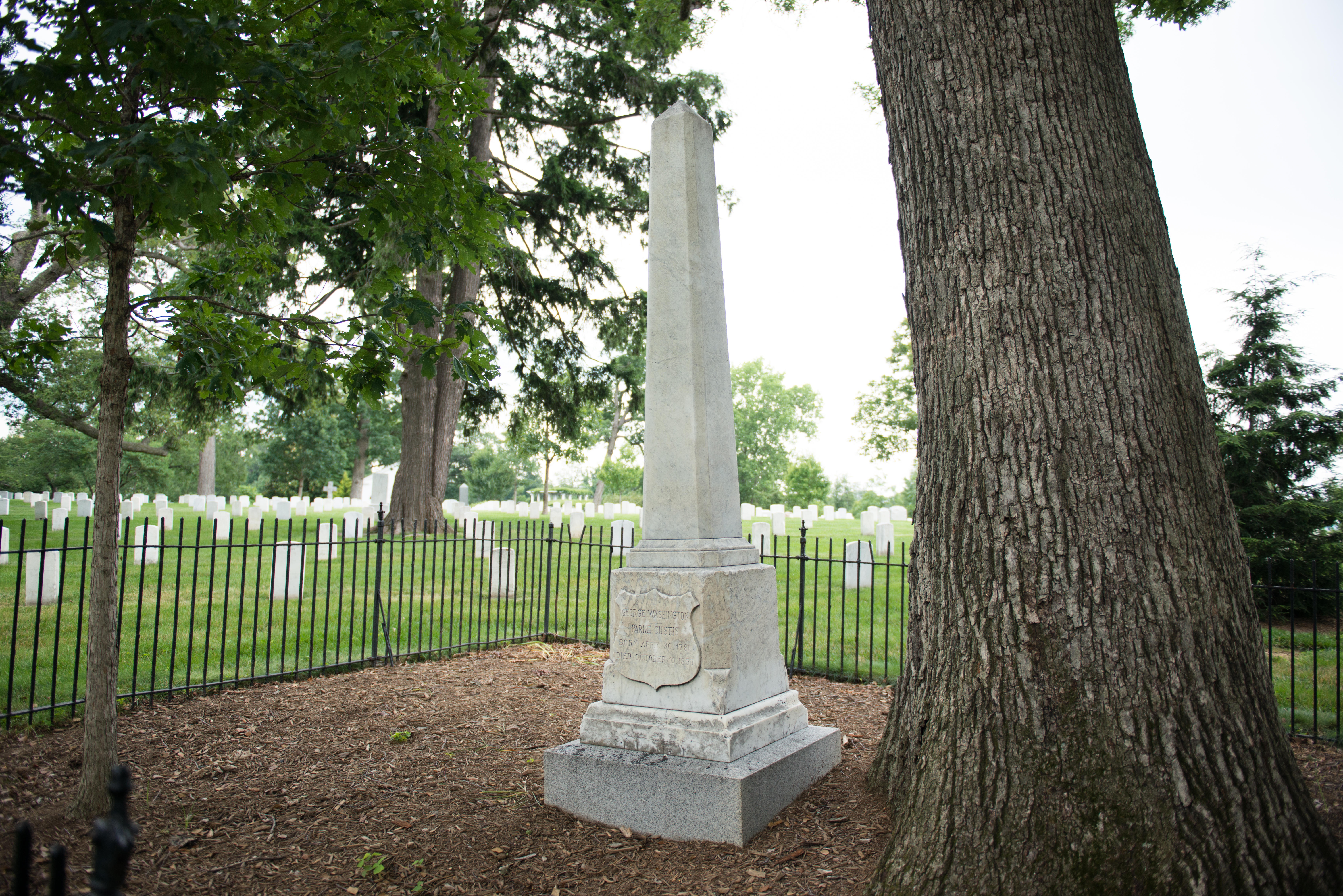 George Washington Parke Custis, buried in Arlington National Cemetery’s Section 13, grave 6513, was the George Washington’s adopted grandson and son of John Parke Custis who himself was a child of Martha Washington by her first marriage and a ward of George Washington. He built Arlington House as a living memorial to George Washington, regularly acquiring George Washington memorabilia to store in the north wing of the mansion. (U.S. Army photo by Rachel Larue/released)